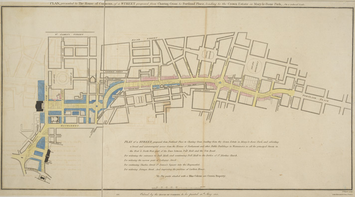 A proposal for Regent Street in London published in 1813. The final design was unaltered in all essentials. The black block centre left is Carlton House.